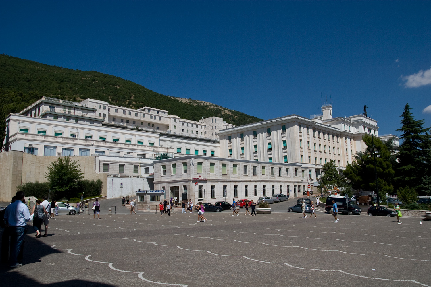 The House for the Relief of Suffering in San Giovanni Rotondo